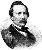 Alexander Kotzebue (9 June 1815, Königsberg - 24 August 1889, Munich) was a German-Russian Romantic painter of historical scenes and battle scenes.